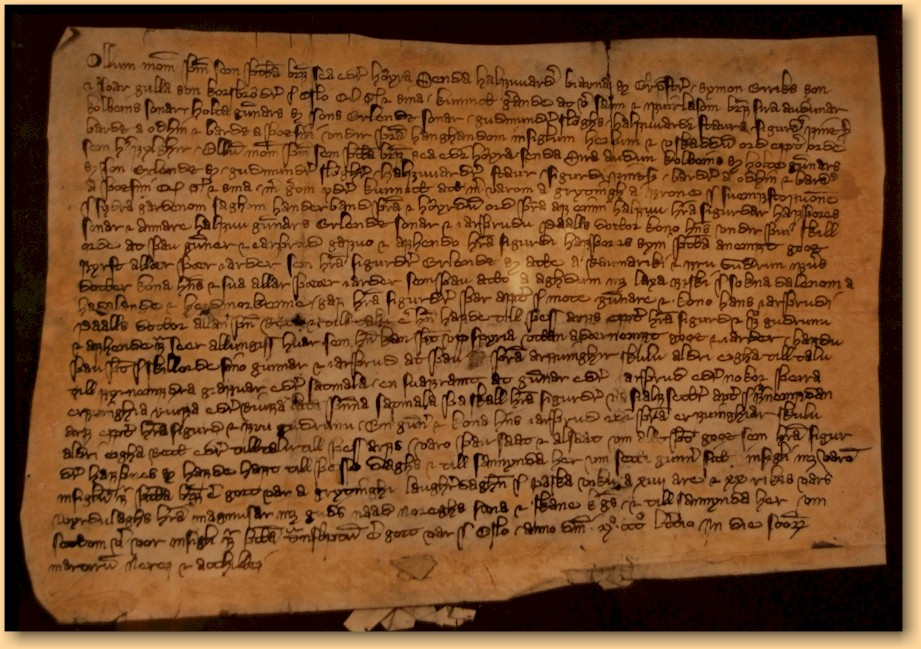 Leatherletter found at Sygard Grytting